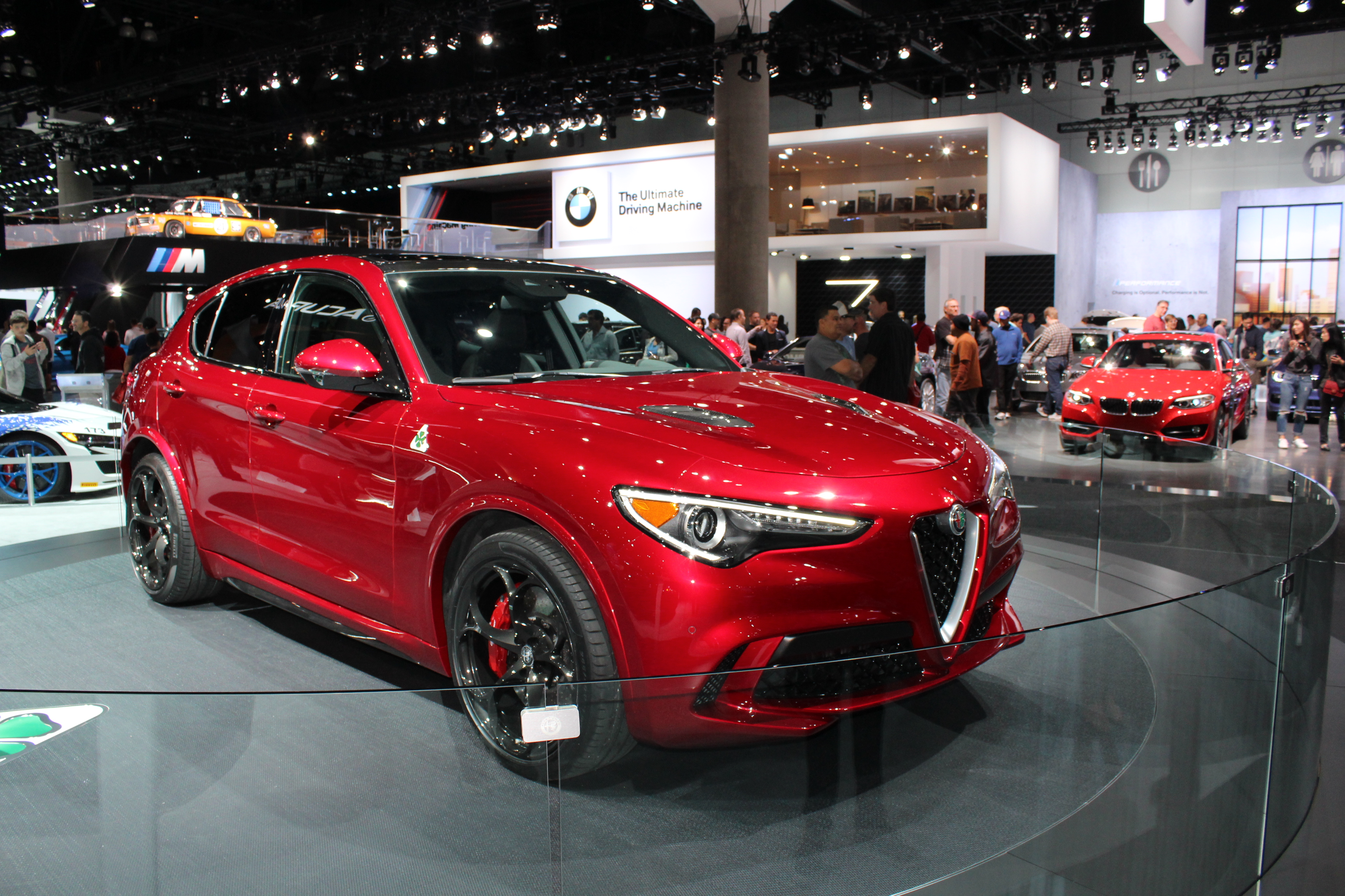 Alfa Romeo Stelvio at 2016 LA Auto Show